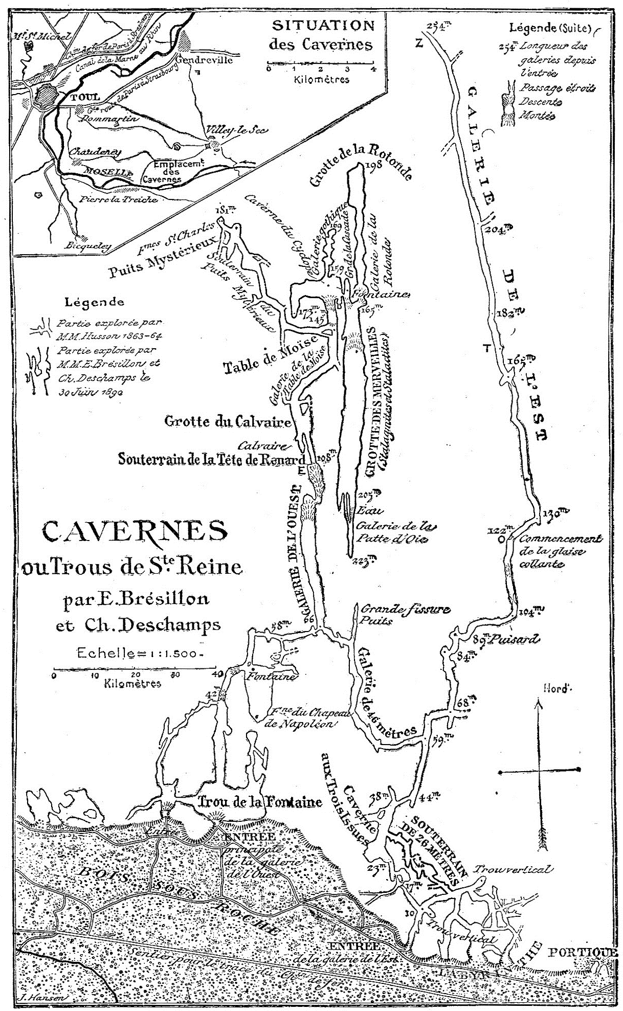 Plan of the Sainte-Reine cave (Pierre-la-Treiche, France) published by E.-A. Martel in 1894 in "The abîmes" (1894)